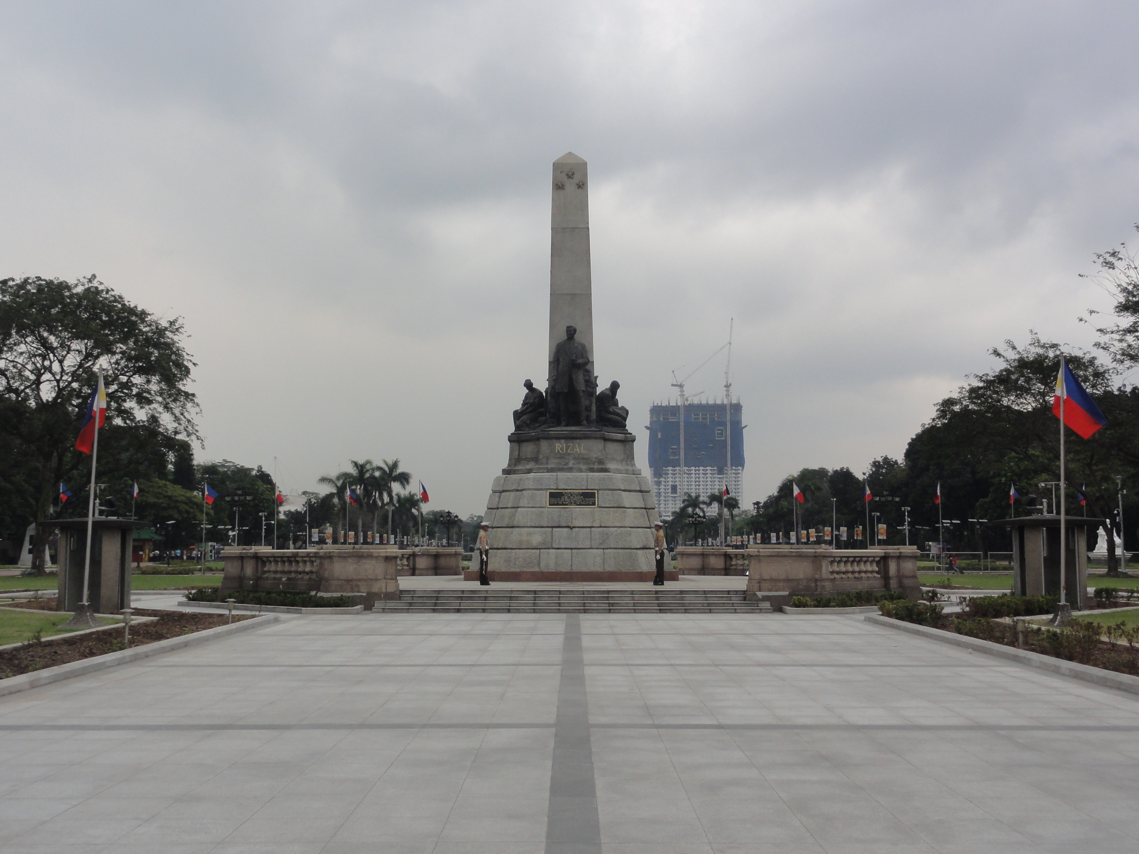 Rizal Monument at Rizal Park (Luneta), Roxas Boulevard, Manila